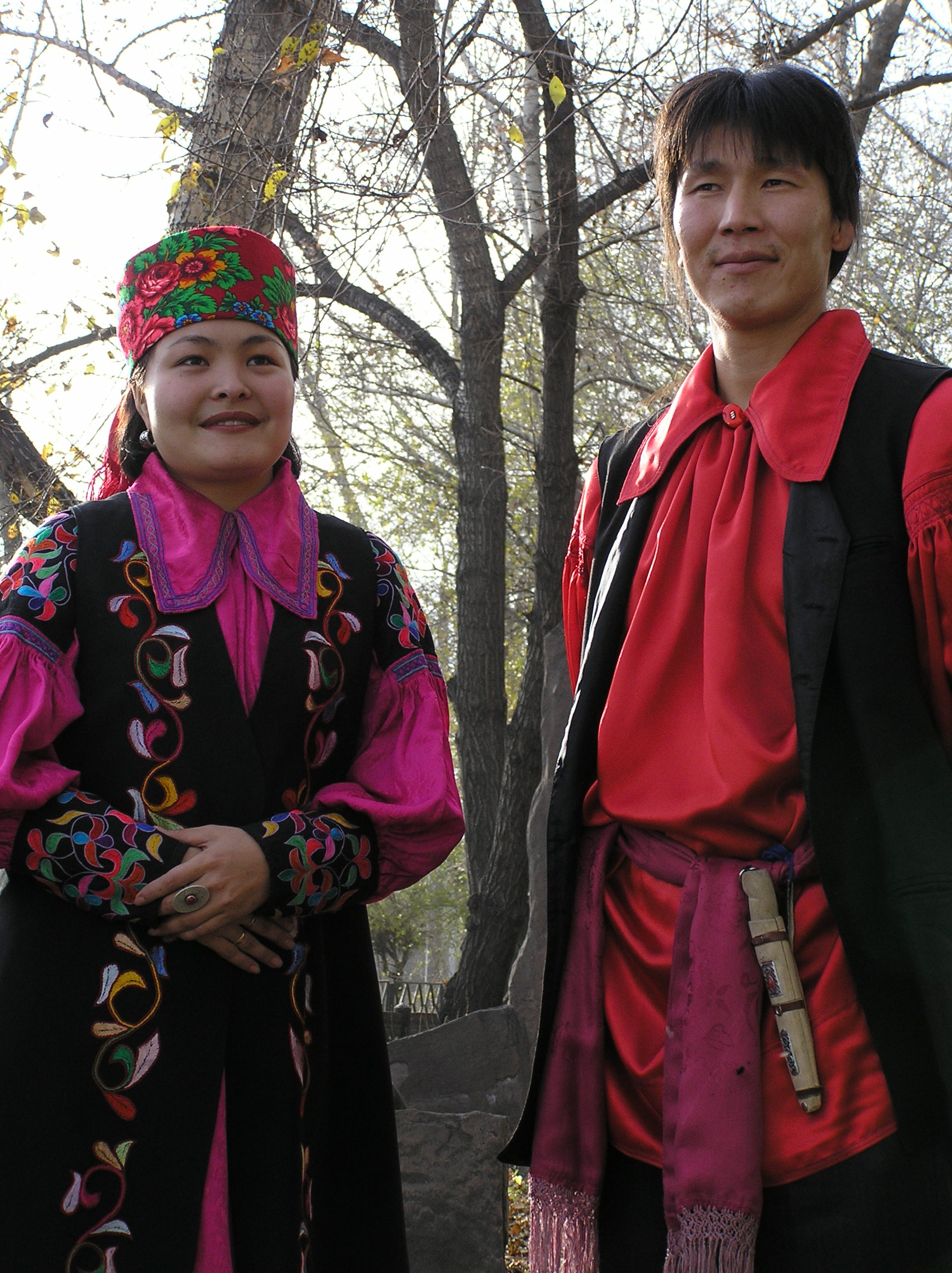 Traditional costume of Khakas people